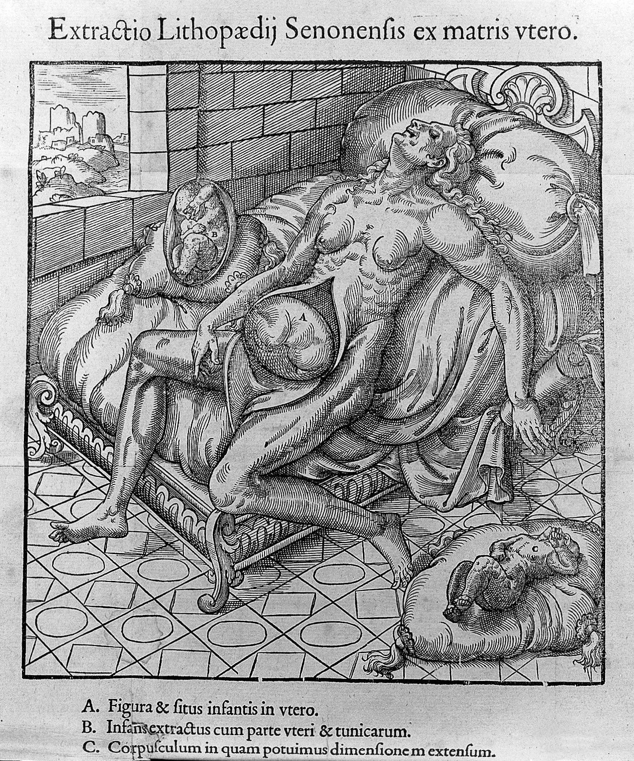 Engraving at the back of the text of a caesarian. Rare Books